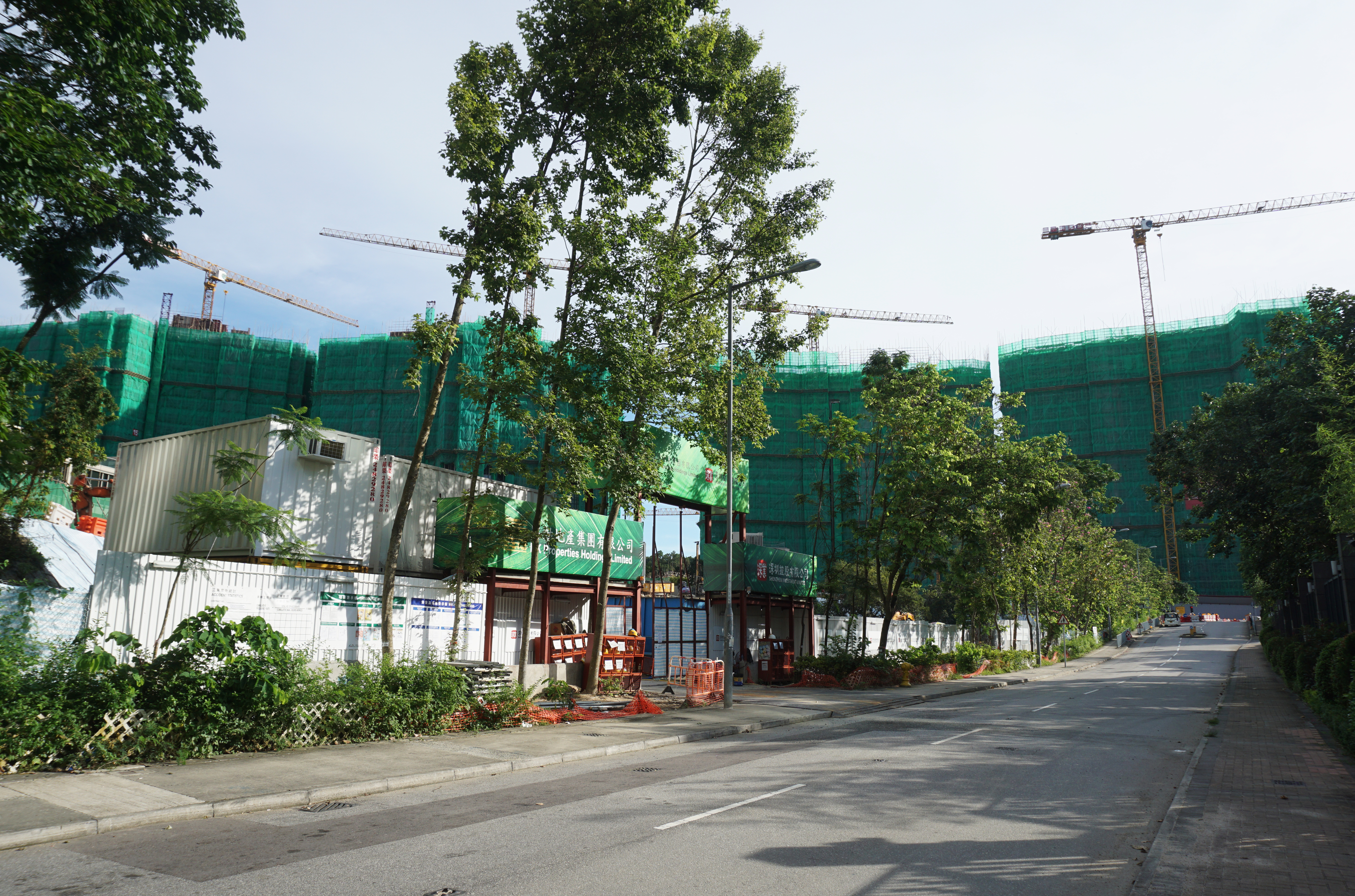 Emerald Bay, Hong Kong.